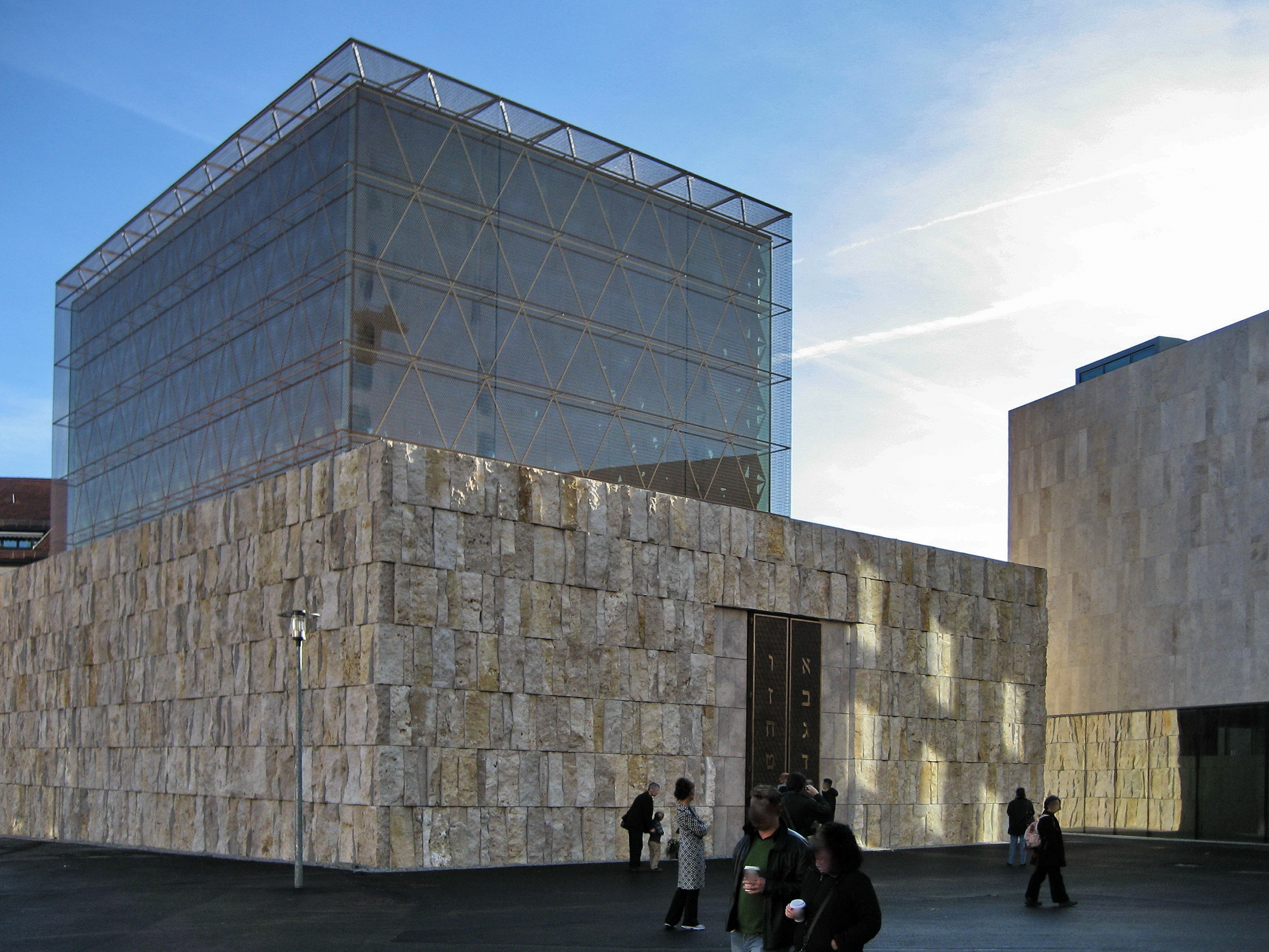 Title New Munich Synagogue at Sankt-Jakobs-Platz